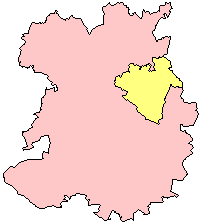 Telford and Wrekin borough in Shropshire, England.